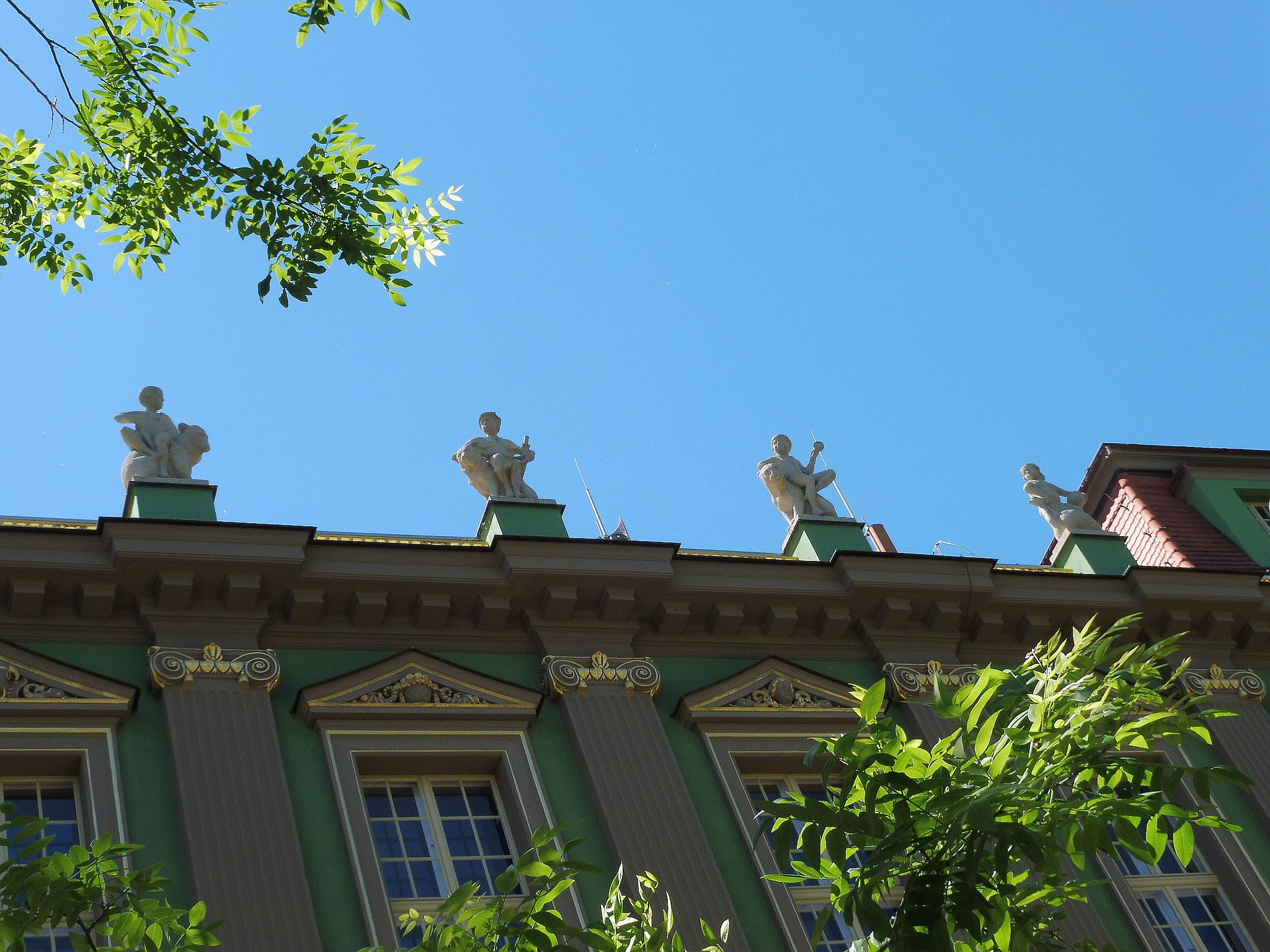 Romain-Rolland-Gymnasium Dresden facade